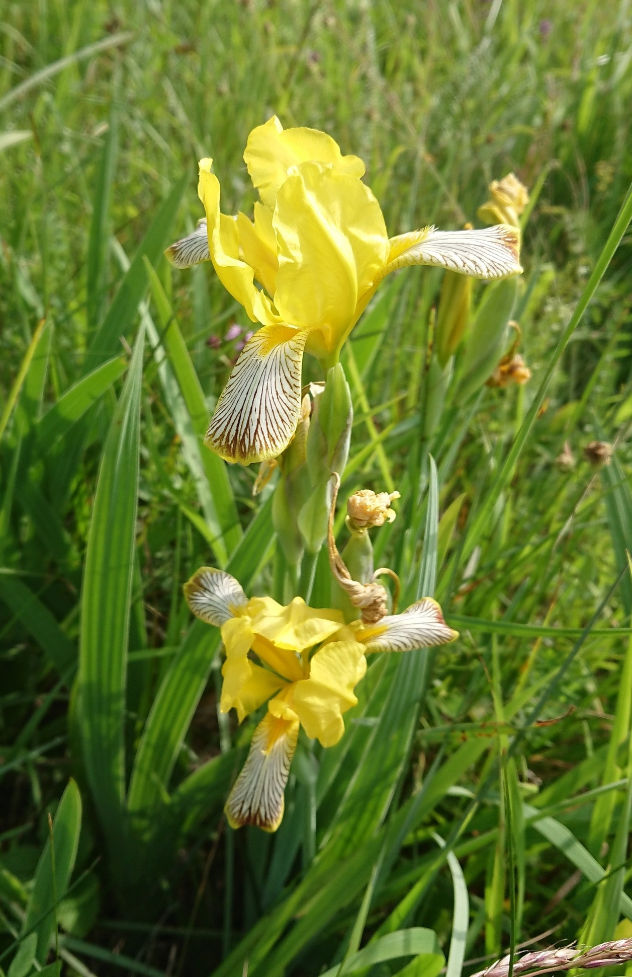 Iris variegata flower in Bükk mountains in Hungary